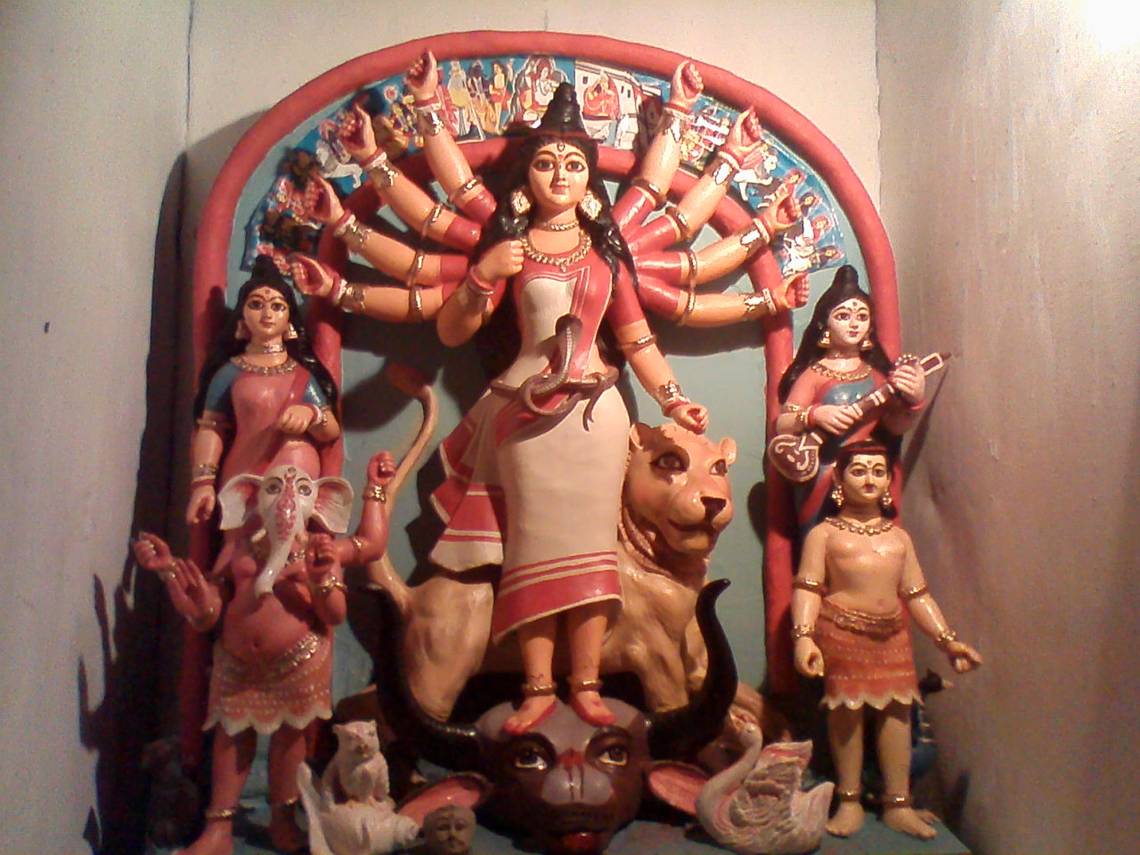 This image was taken by me in Durga Pooja of 2012